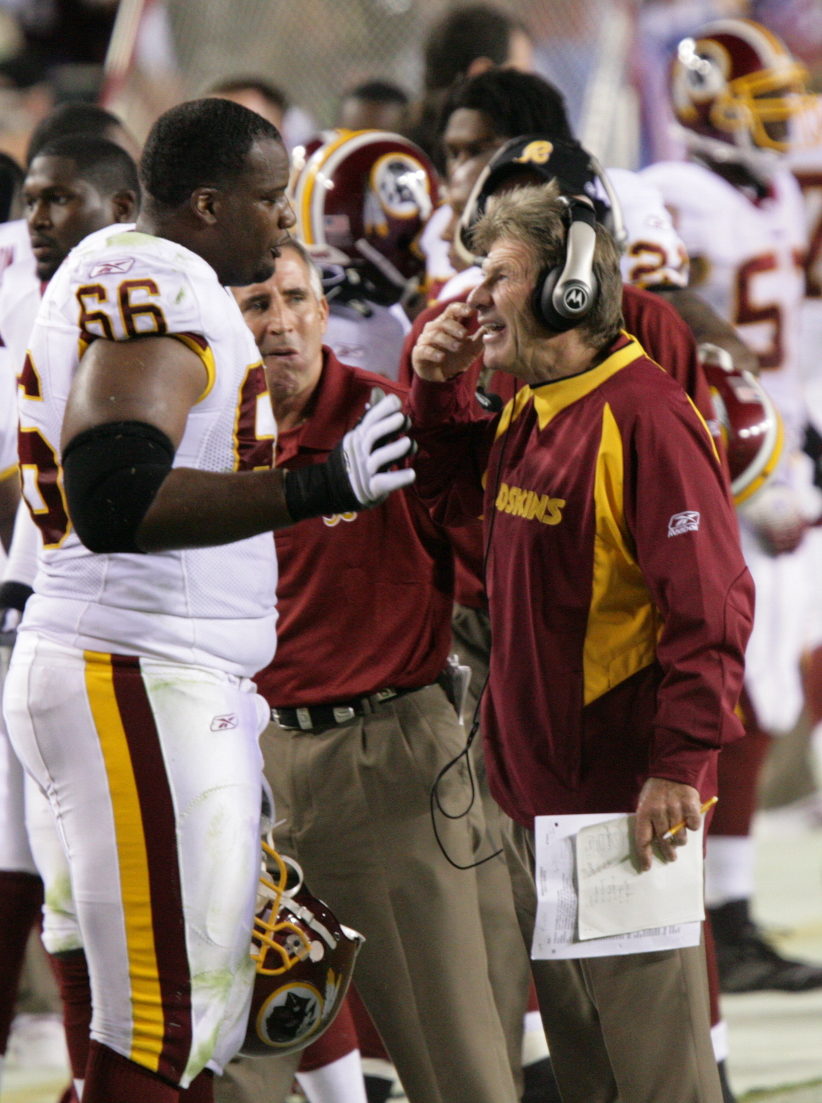 Derrick Dockery speaks with a coach of the Washington Redskins during a game.